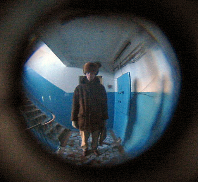 View through a peephole, taken in Karaganda, Kazakhstan